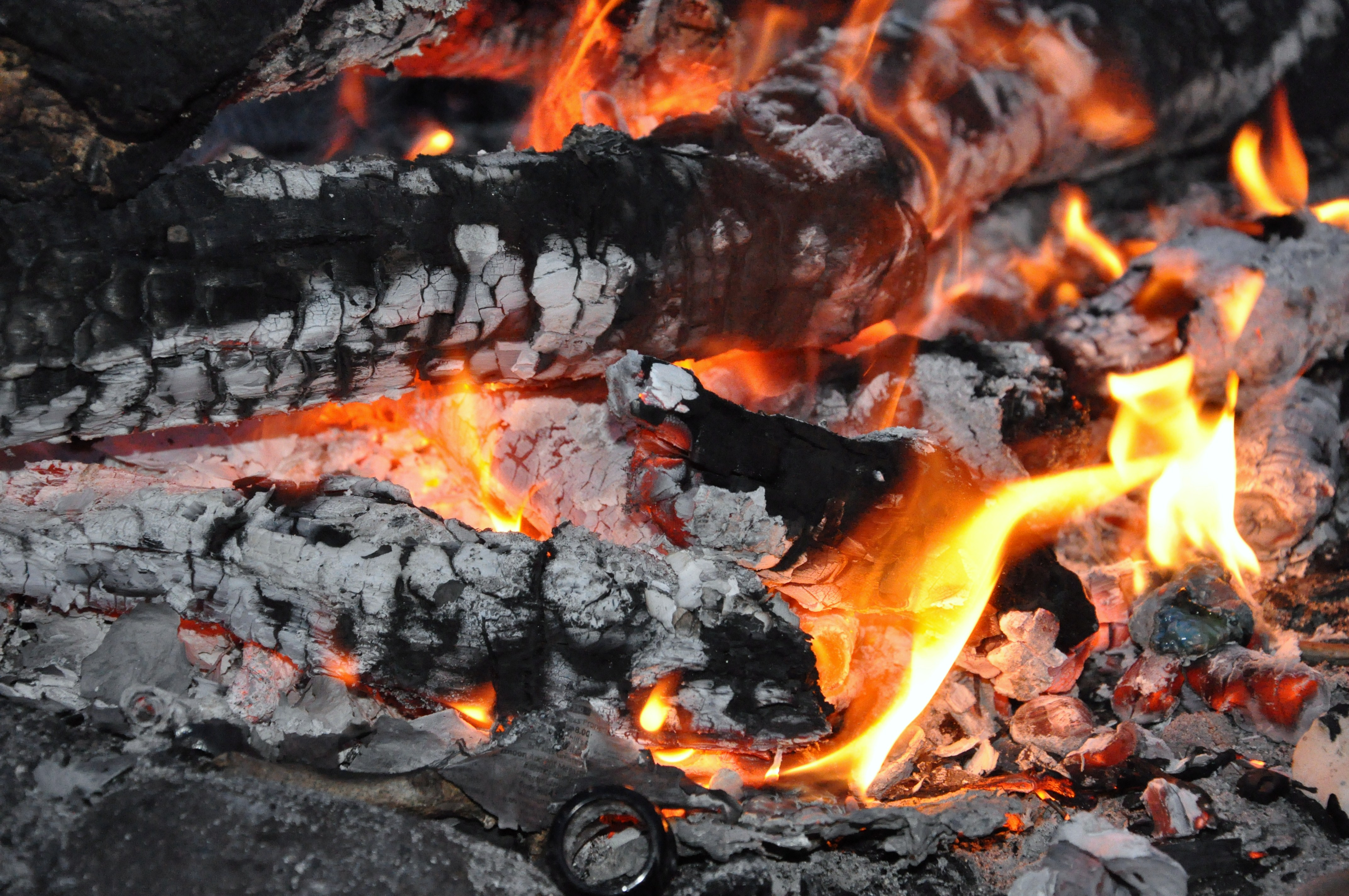 Close view of an open wood fire